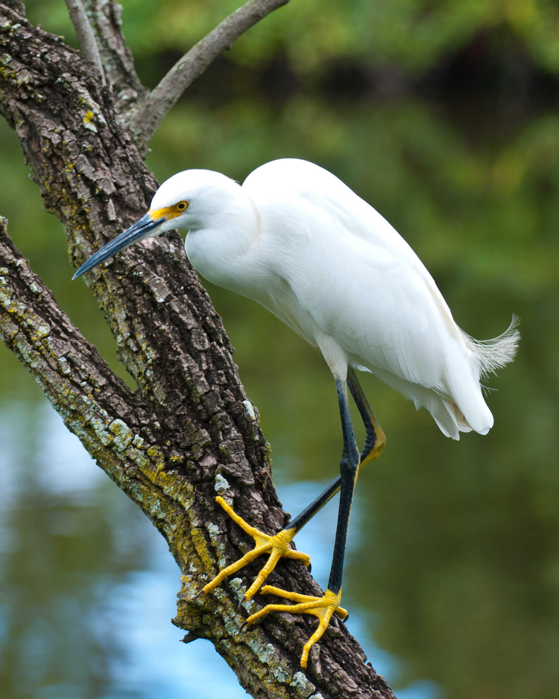 A snowy egret (Egretta thula) perched on a log. Taken in the Orlando region, Florida, USA.